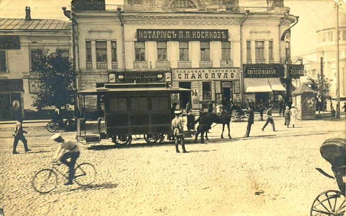 Horse-railway in Tula.